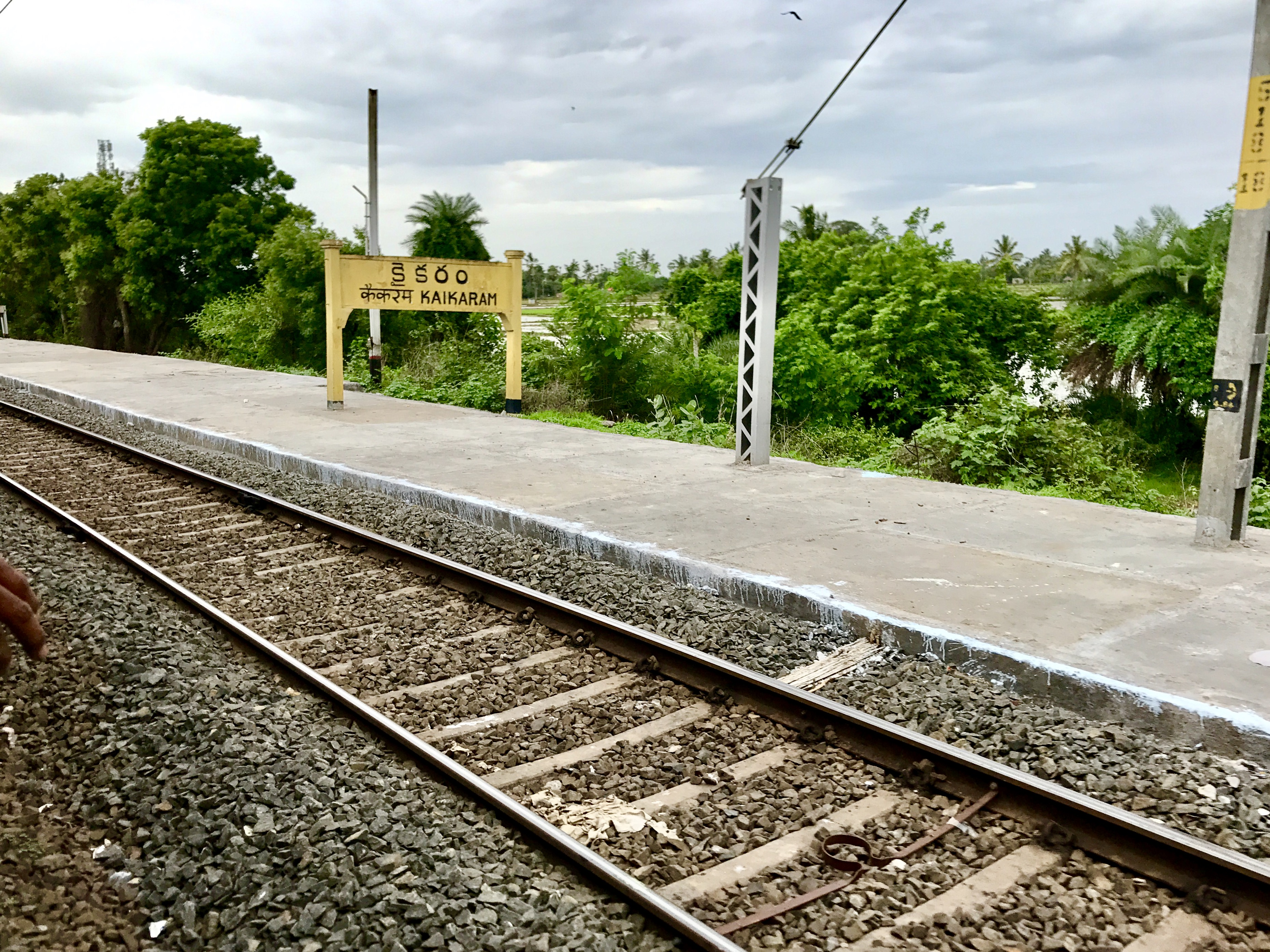 Kaikaram Railway Station board